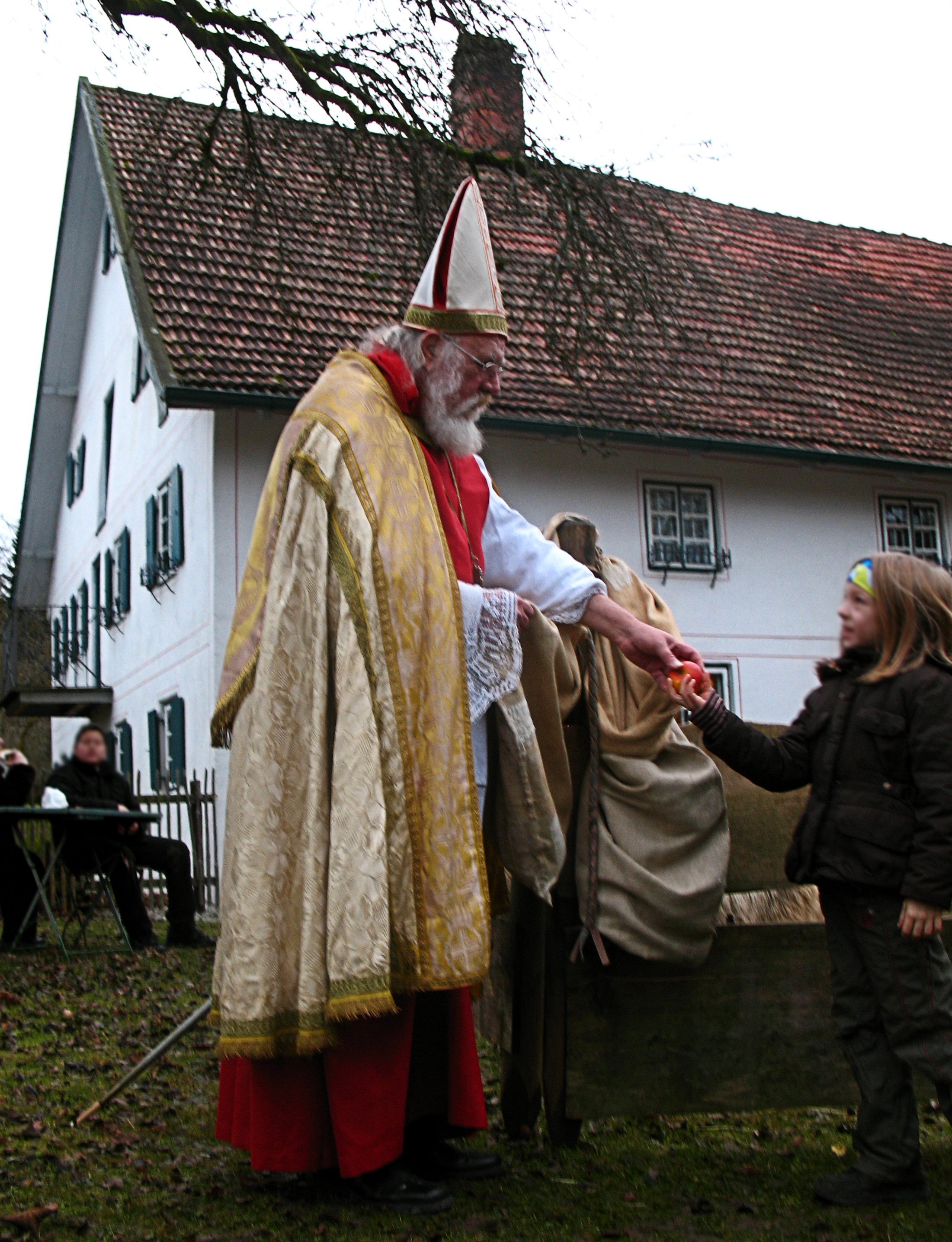 Saint Nicholas